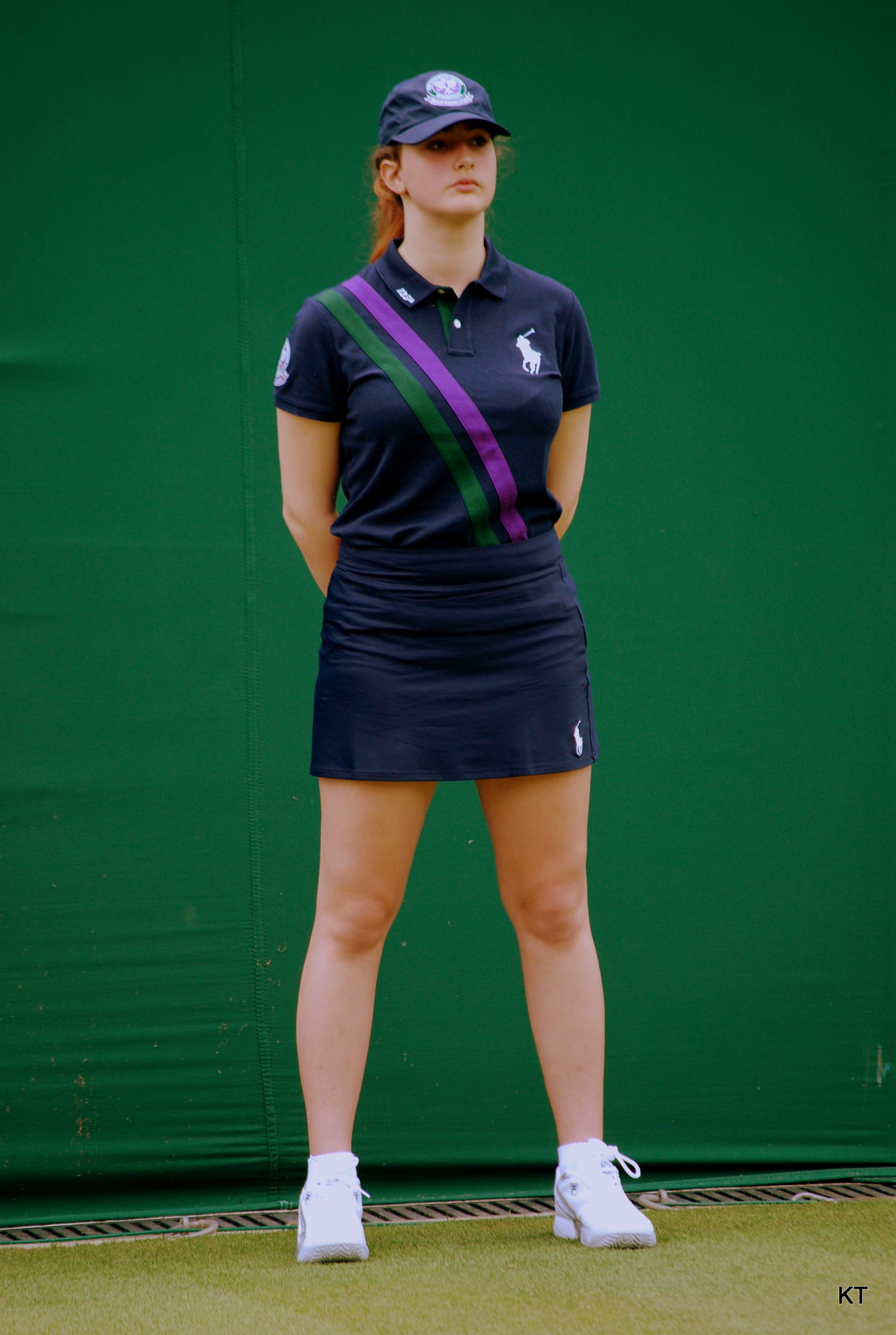 Day 1 of Wimbledon 2011.